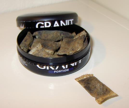 Granit Portion Snus